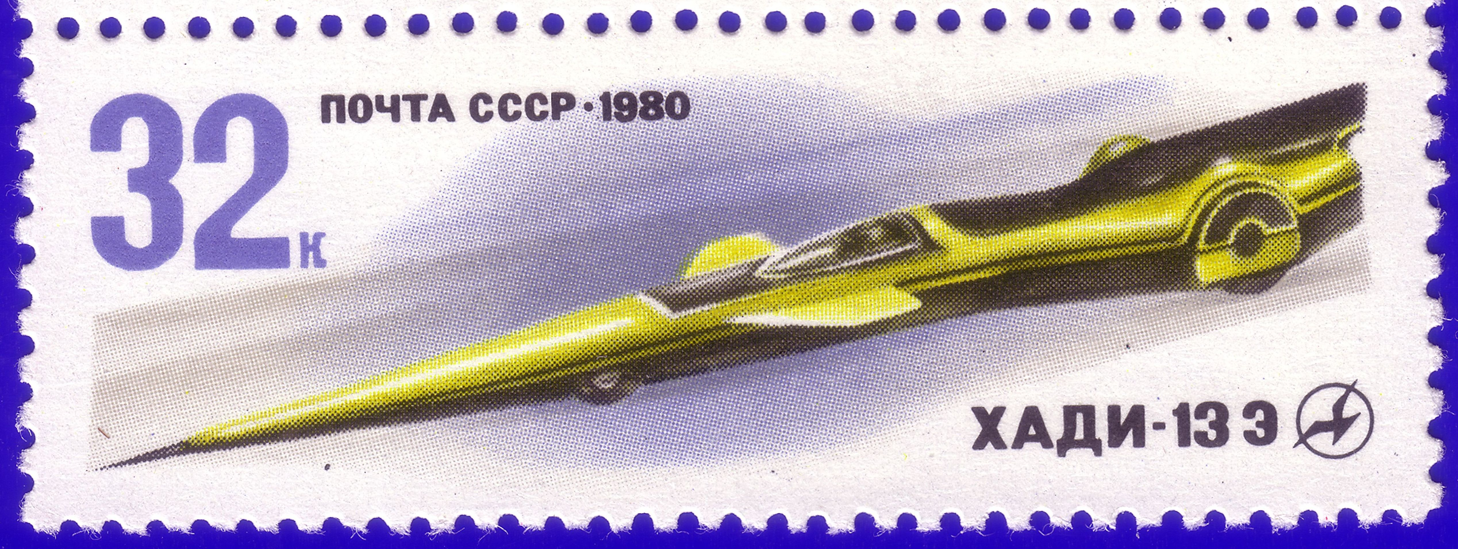 A USSR stamp of 1980. KHADI-13Electric racing car.